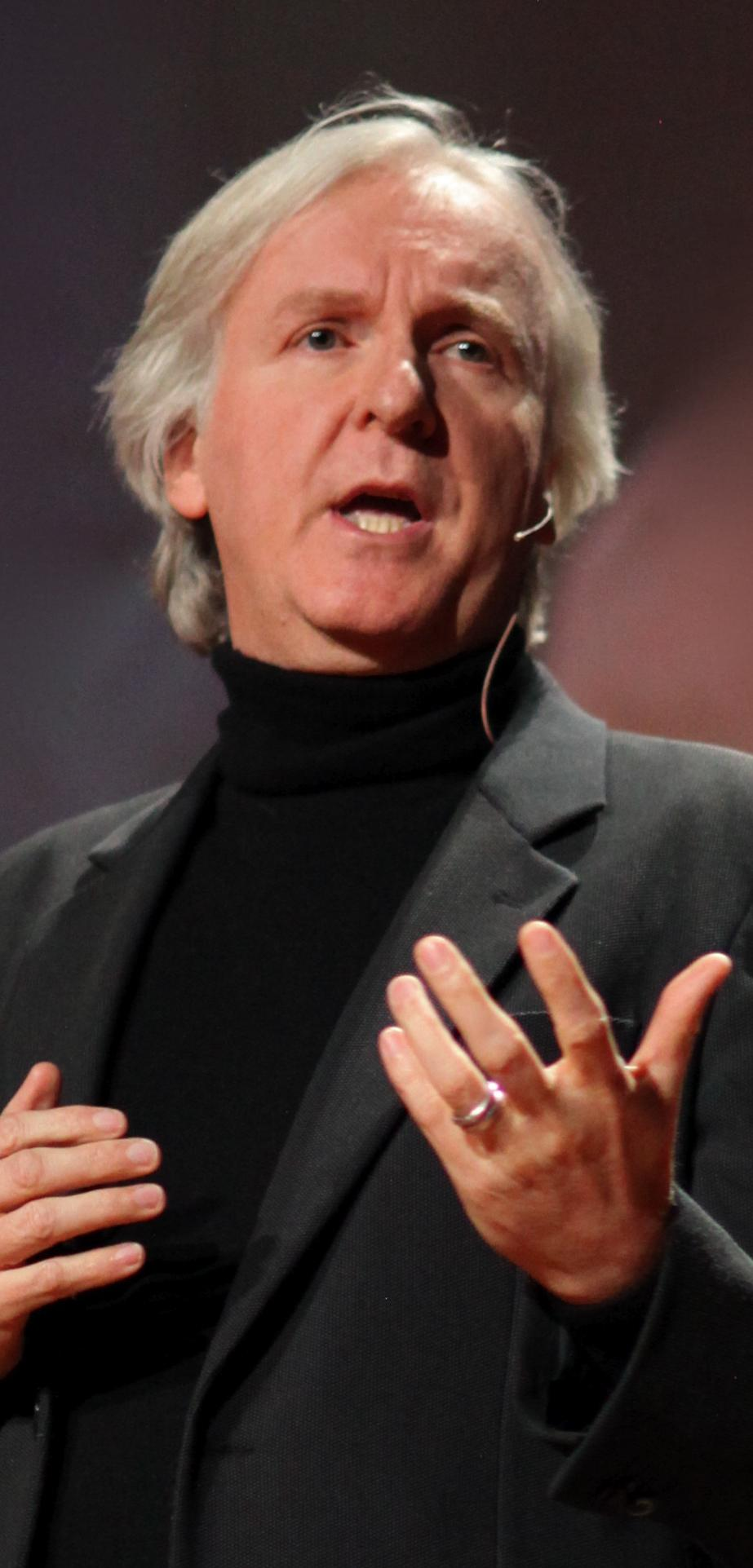 James Cameron speaking at TED 2010.